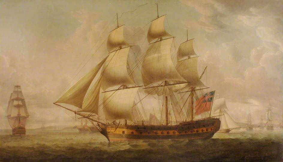 The Cuffnells at the Mother Bank; Built on the yard of Randall at Rotherhithe, London for Sir Robert Preston; launched 9 May 1796 under the name Cuffnells.